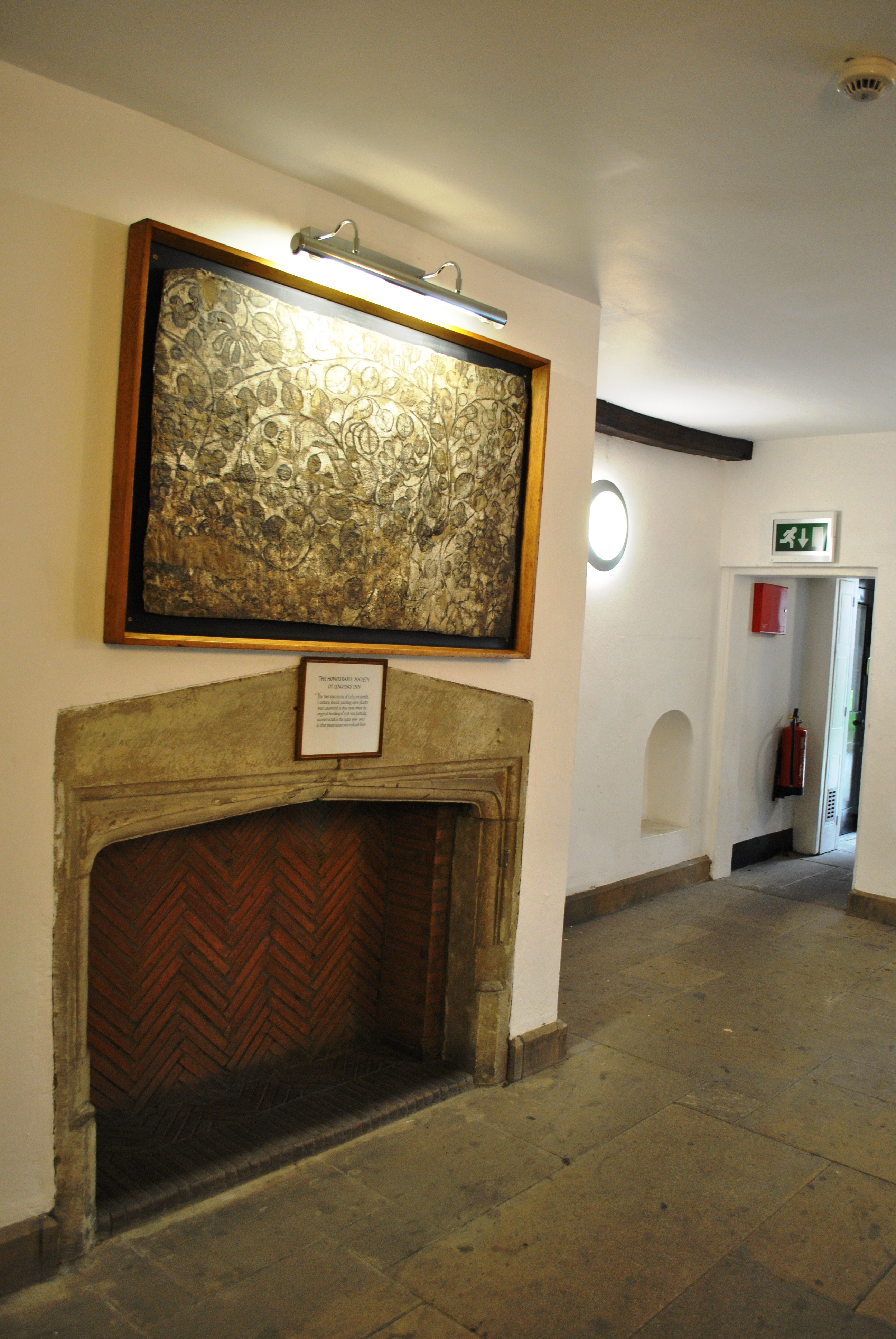 Lincoln's Inn